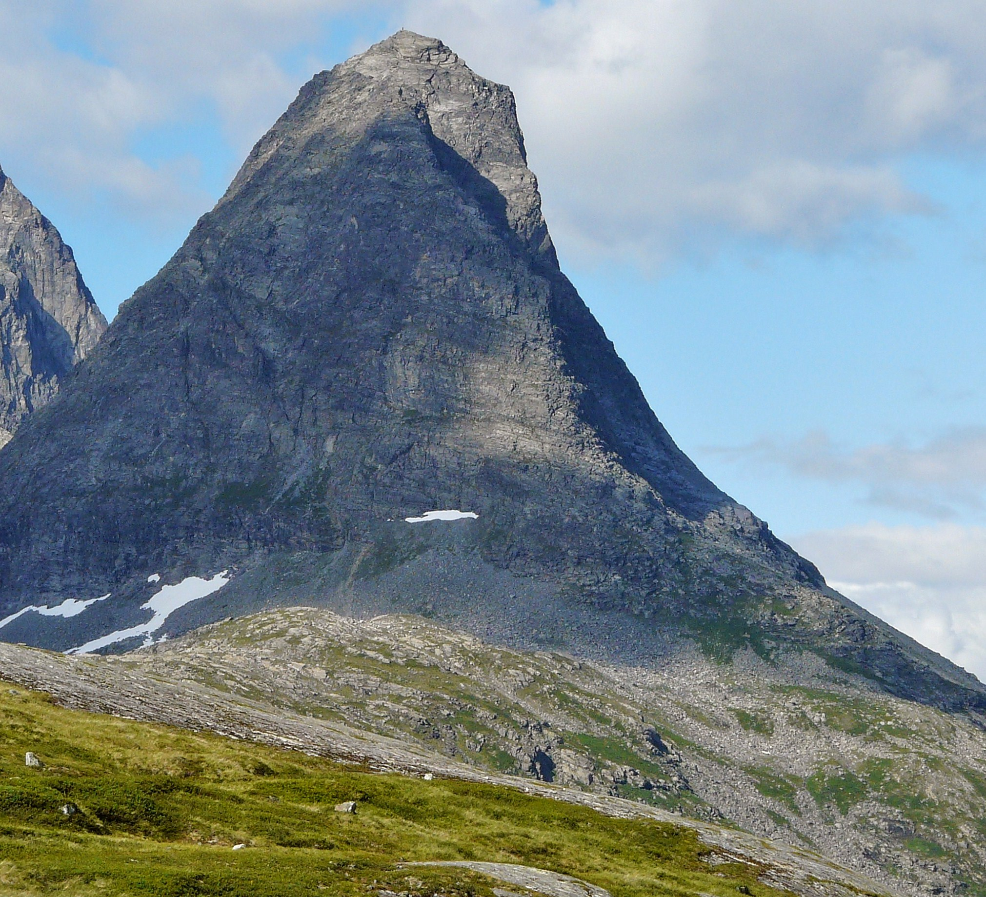 Bispen (1,462 m) near Trollstigen as seen from the south at Trollstigheimen by the Riksvei 63 road in 2008 August.